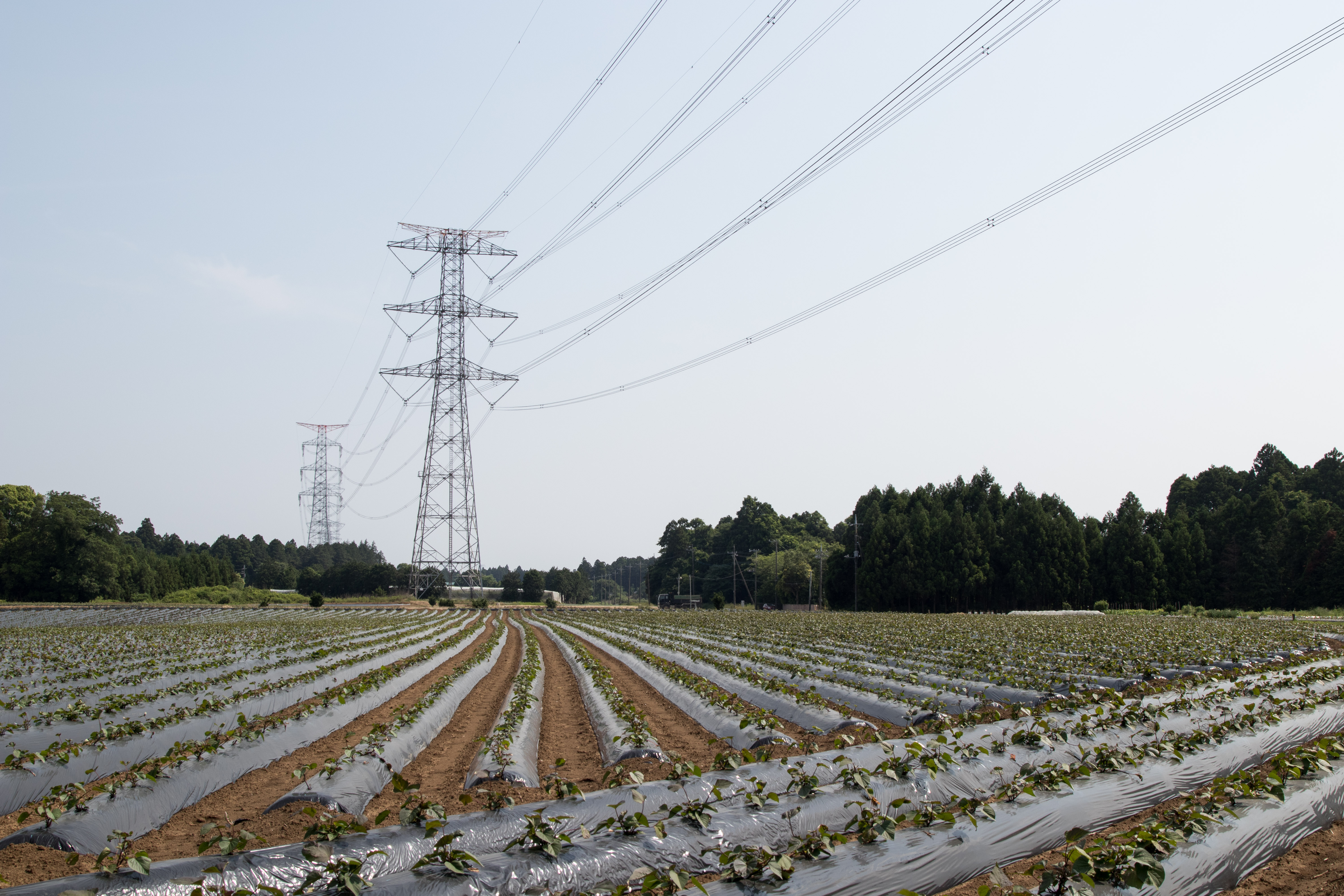 Shin-Sodegaura Power Line (500 kV electric power line), Katori City, Chiba Pref., Japan